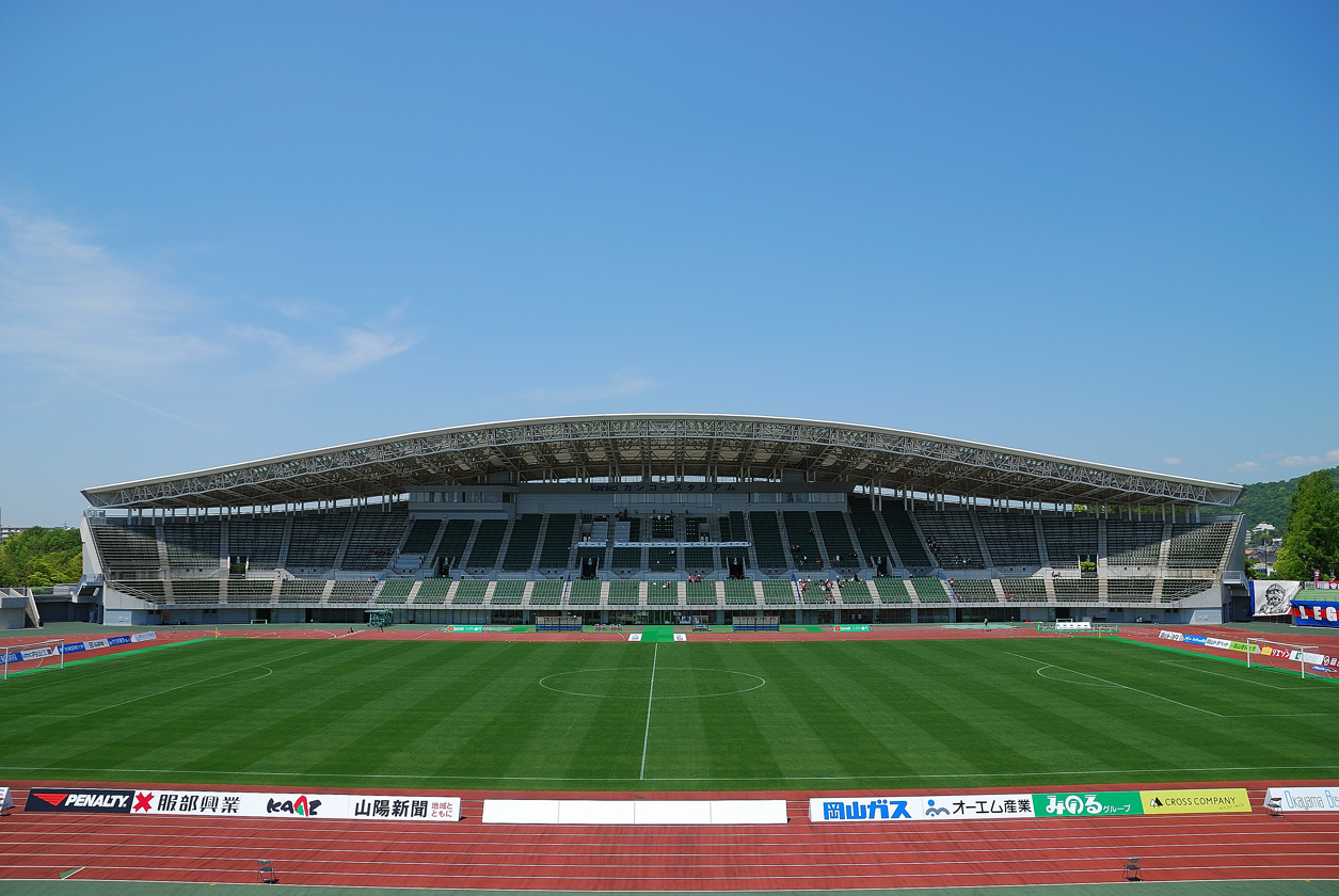 Momotaro Stadium (Kita-ku, Okayama, Okayama Prefecture)